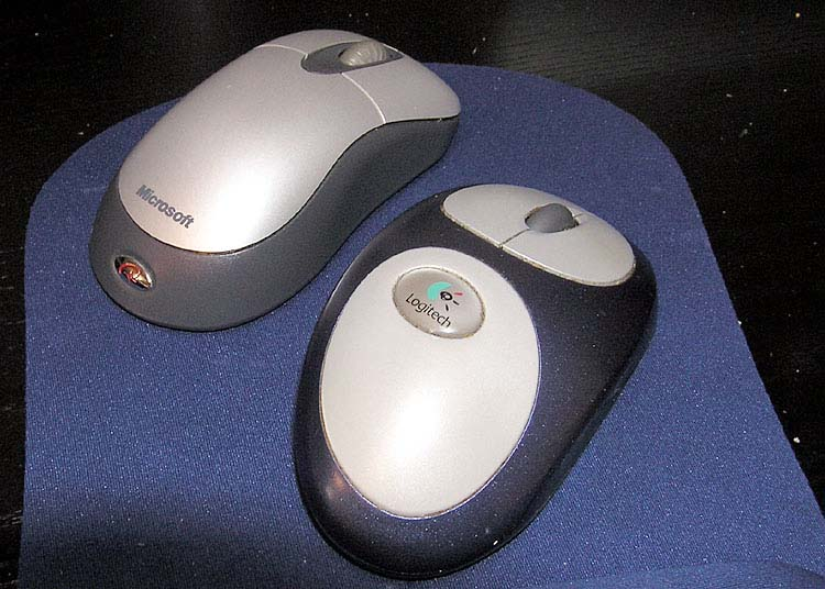 Two wireless computer mice, with scroll wheels. Photographed by Adrian Pingstone in March 2004 and released to the public domain.